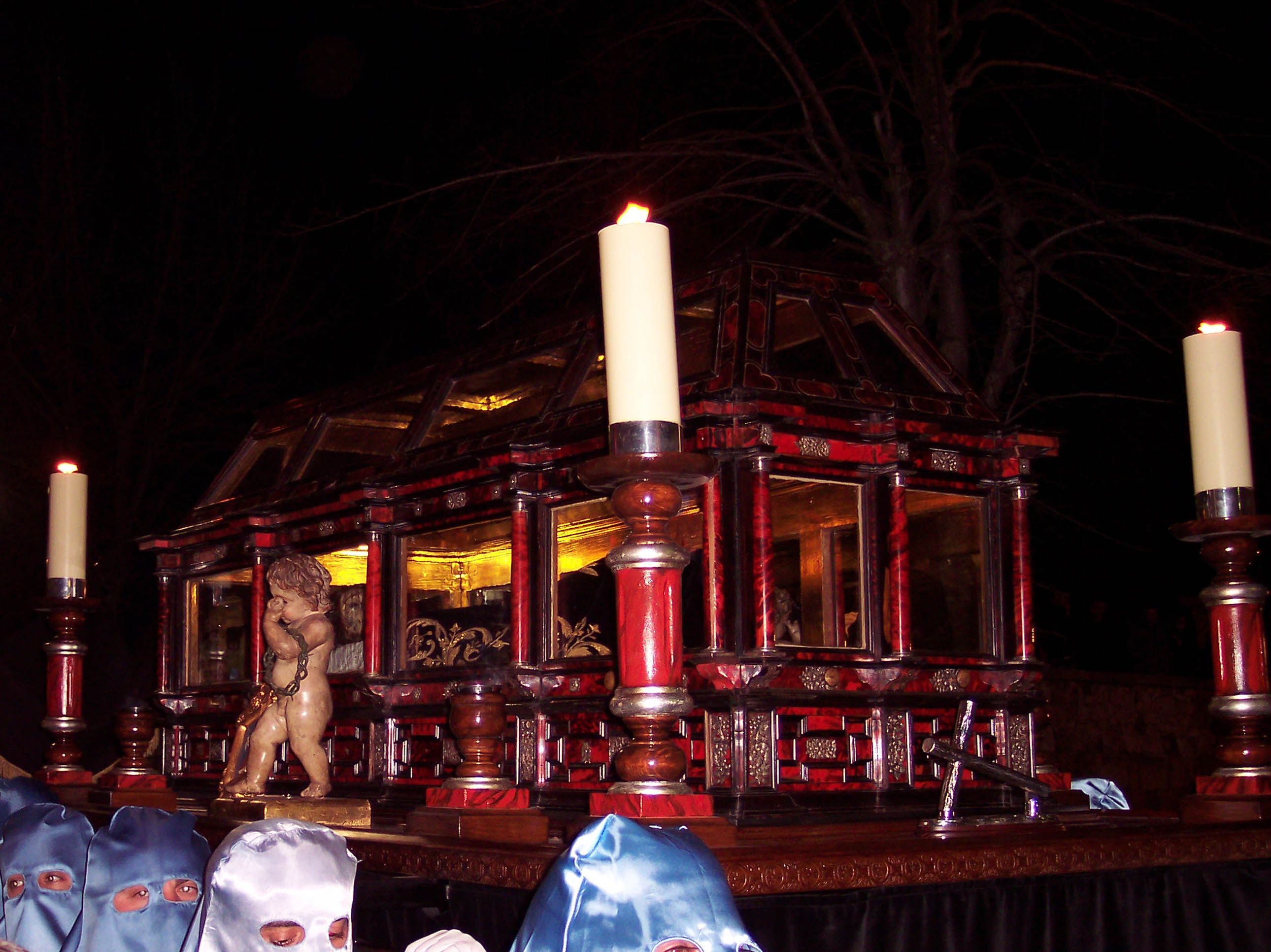 Holy Sepulchre, Salamanca (Spain)